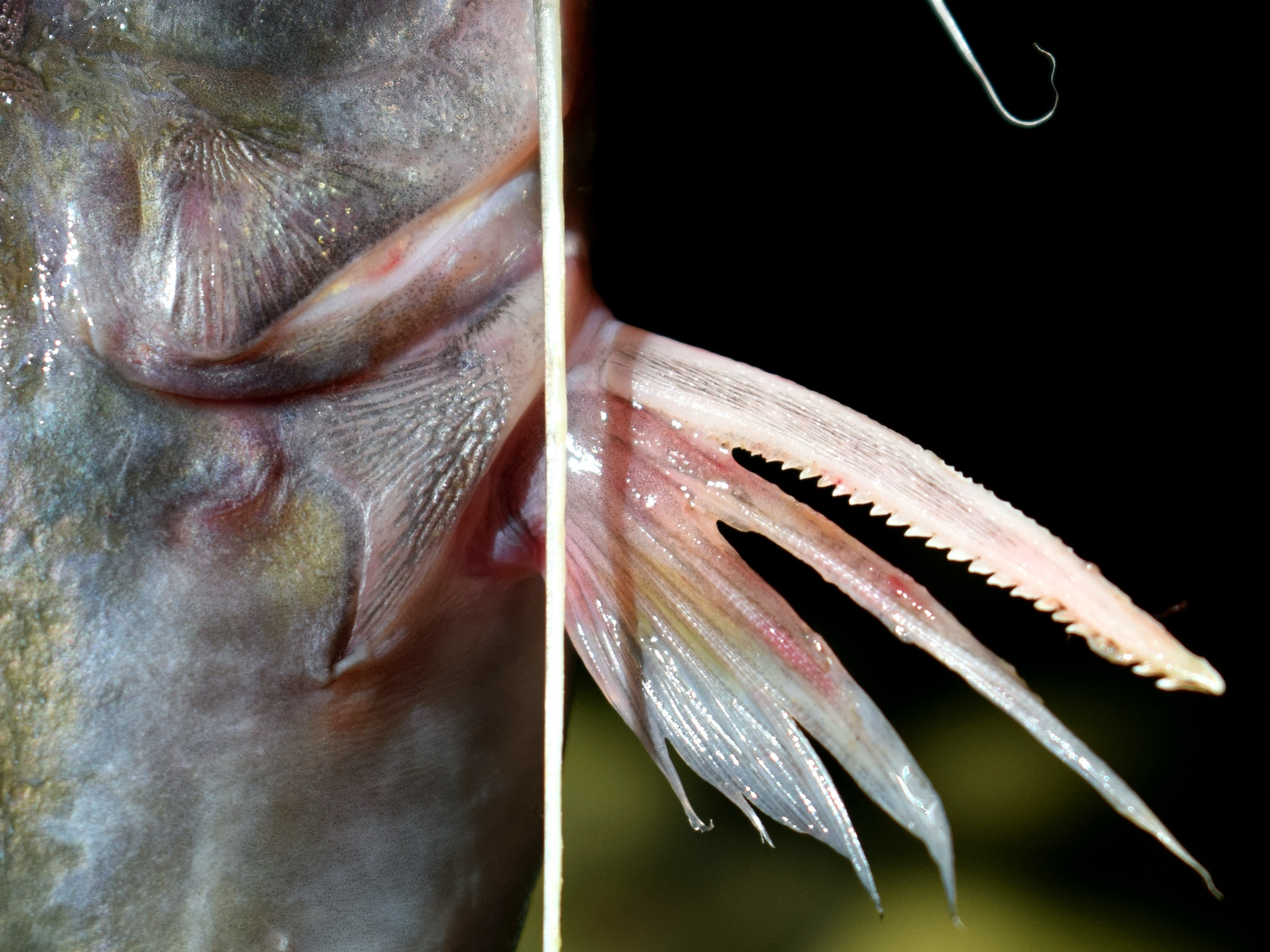 Hemibagrus nemurus, female, 294mm SL; from Cihideung, a tributary of Cisadane River, Bogor, West Java, Indonesia. Pectoral fins, with long, stout, and serrated pectoral spine.